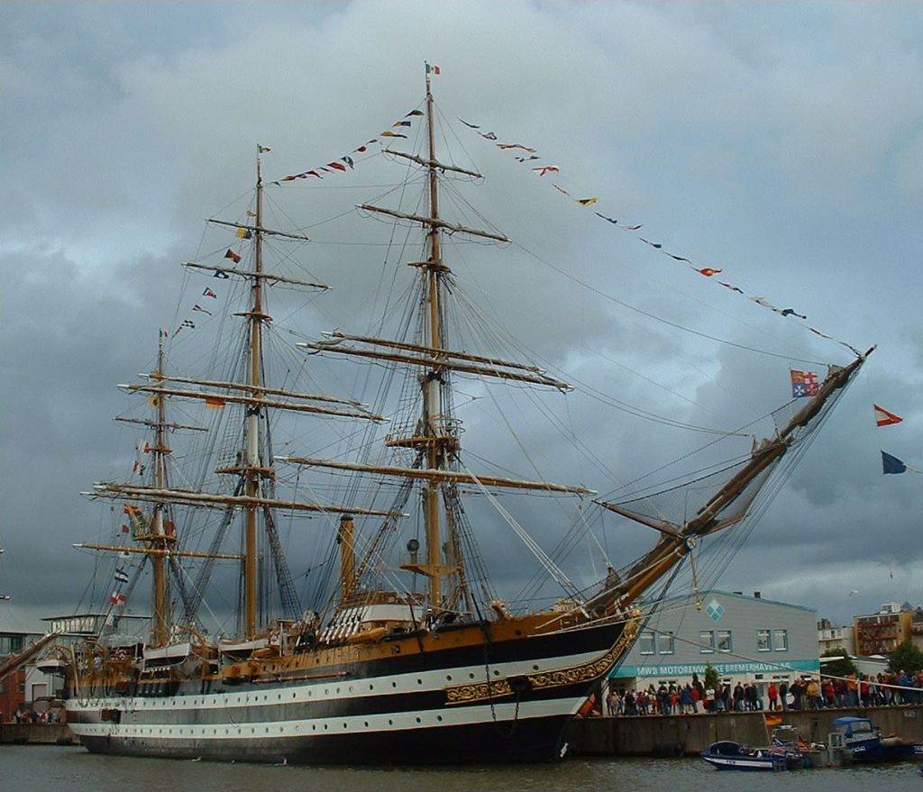 Italian tall ship Amerigo Vespucci at the "Sail" festival 2005 in Bremerhaven, Germany.